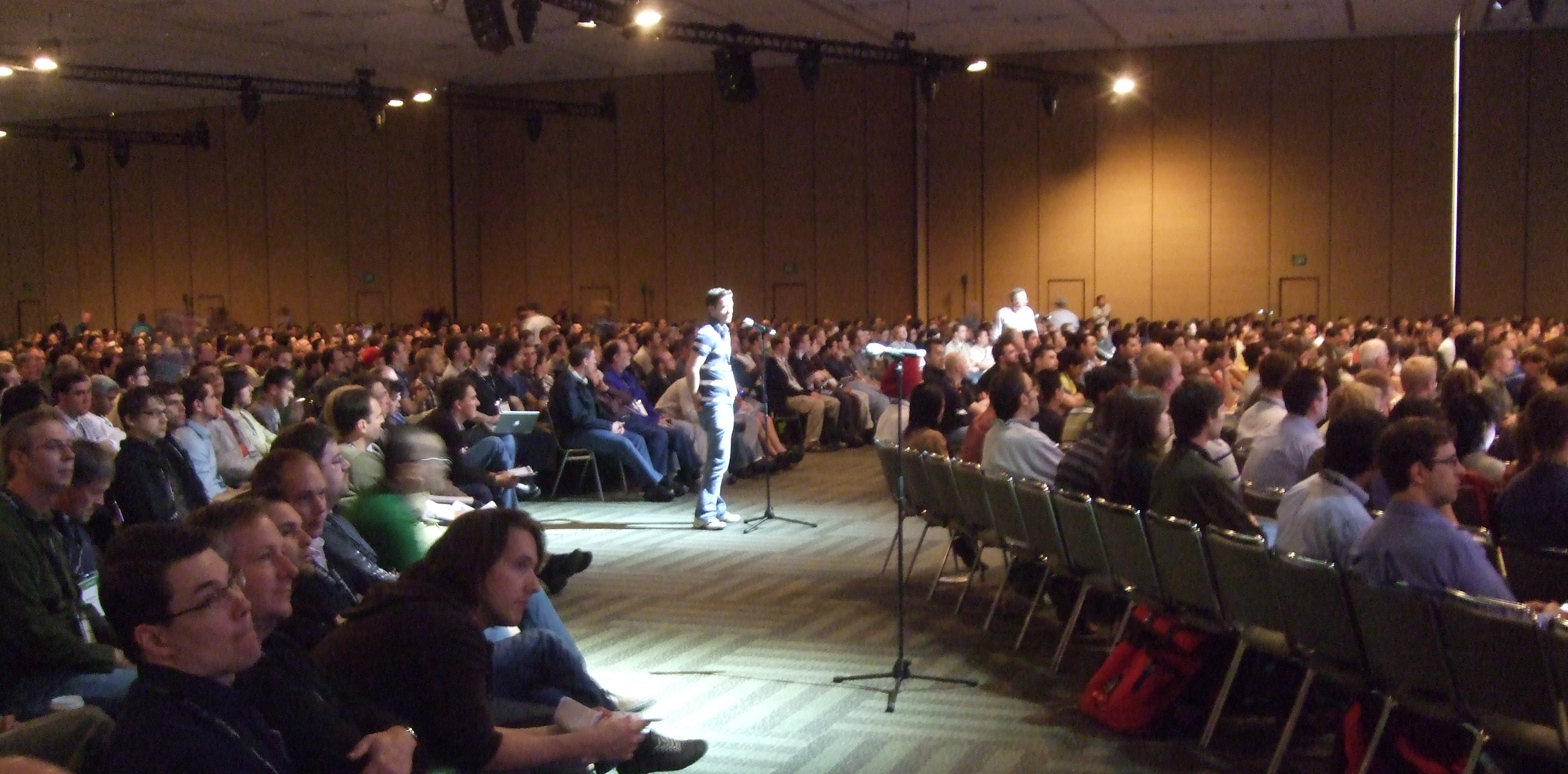 2008 Google I/O in USA, the Keynote.